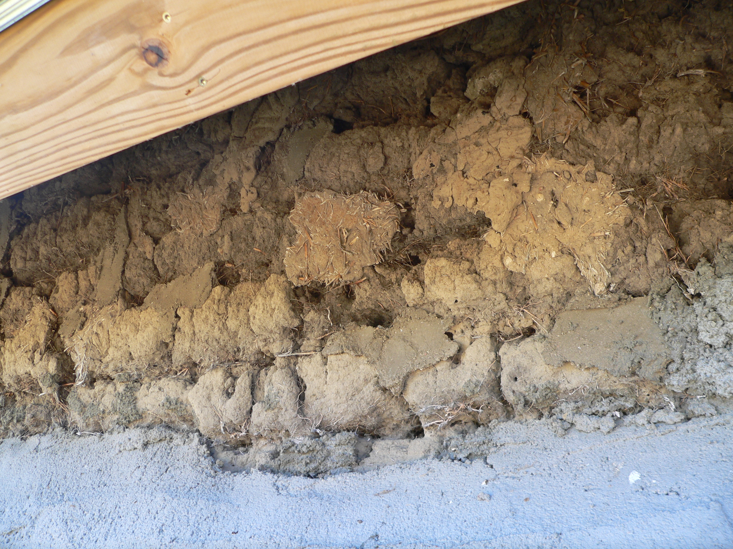 Detail of upper portion of north exterior wall of William R. Dowse House, located southwest of Comstock in Custer County, Nebraska. The sod house was built in 1900, and is listed in the National Register of Historic Places. It is now open as a museum. The wood at upper left is part of the house's eaves; the original sod construction is visible below that; in the lower portion of the picture is a layer of concrete, applied over the sod. The entire wall of which this is a detail is shown at File:Dowse sod house N wall.JPG.